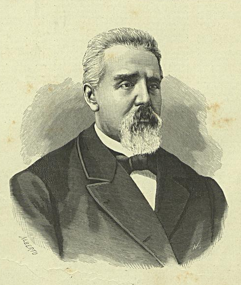 Portrait engraving of the Viscount of Santa Mónica, published in 1889.